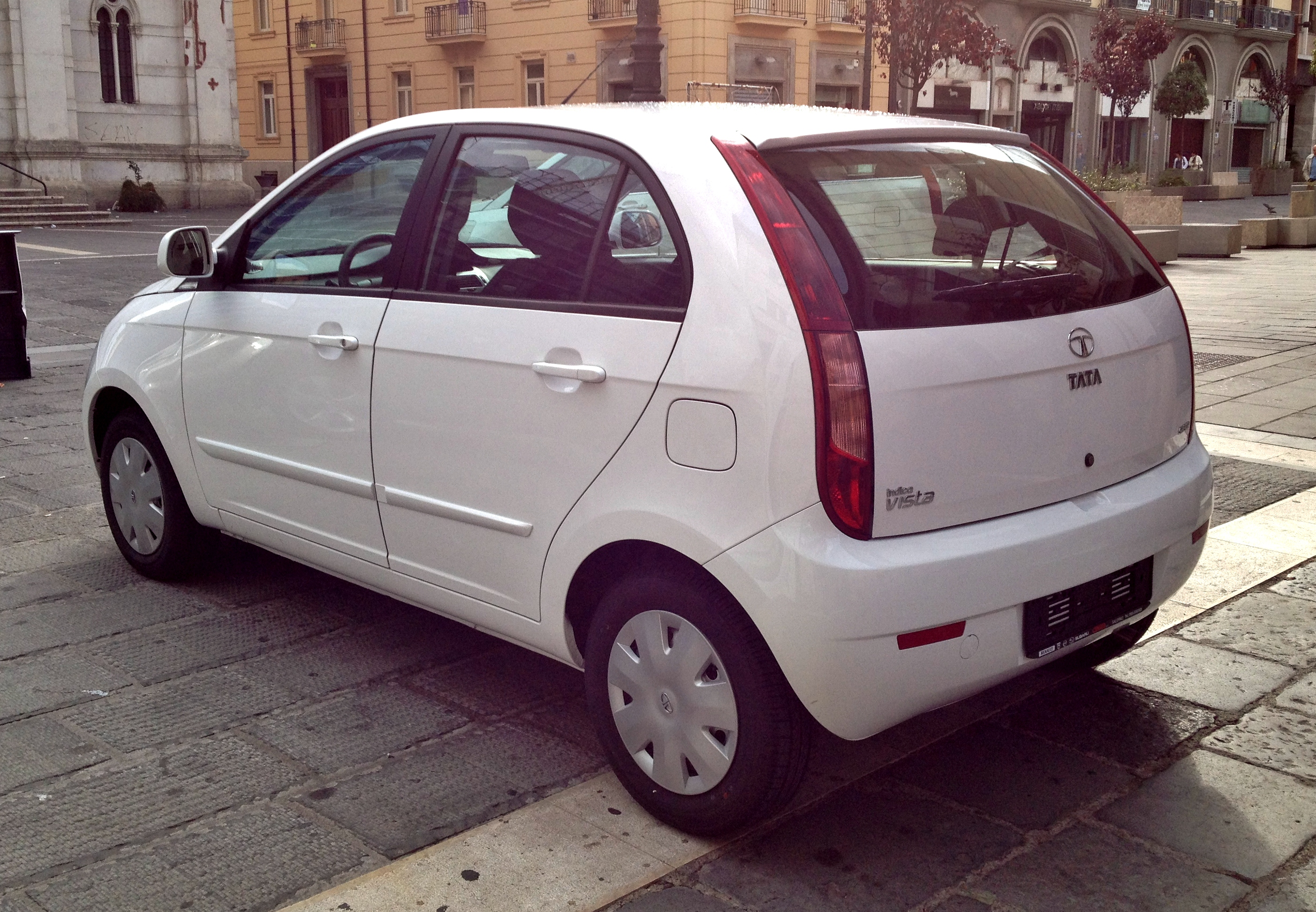 2012 Tata Indica Safire front